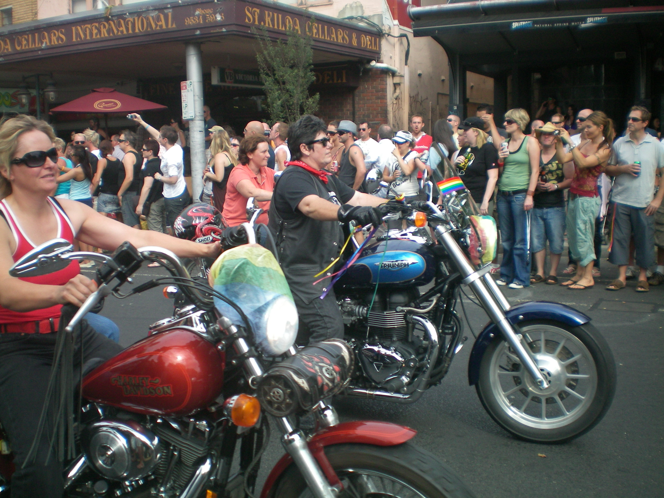 The "Dykes on Bikes" at the 2009 Midsumma Festival, St. Kilda, Victoria.